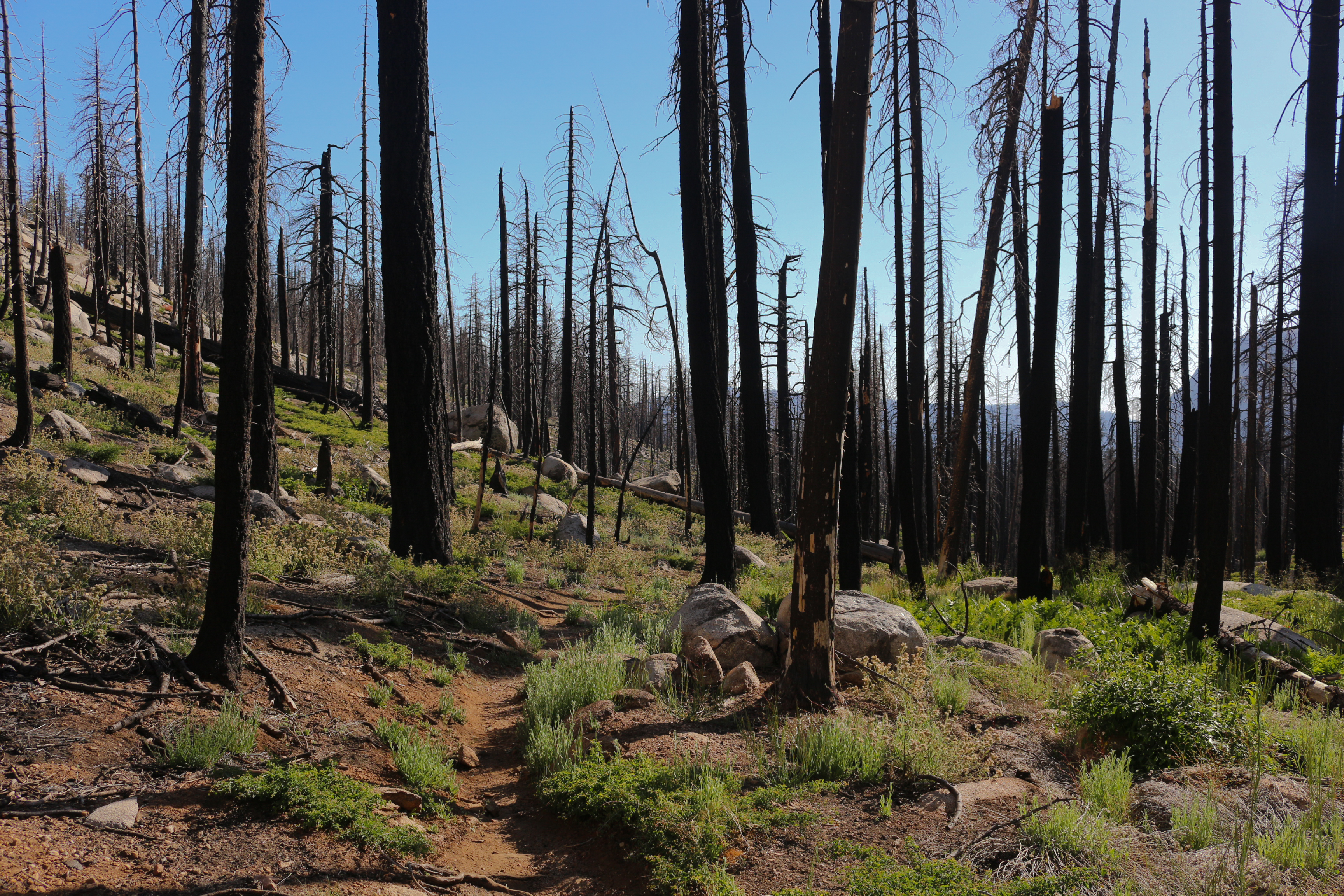 California, Yosemite National Park, burnt down zone